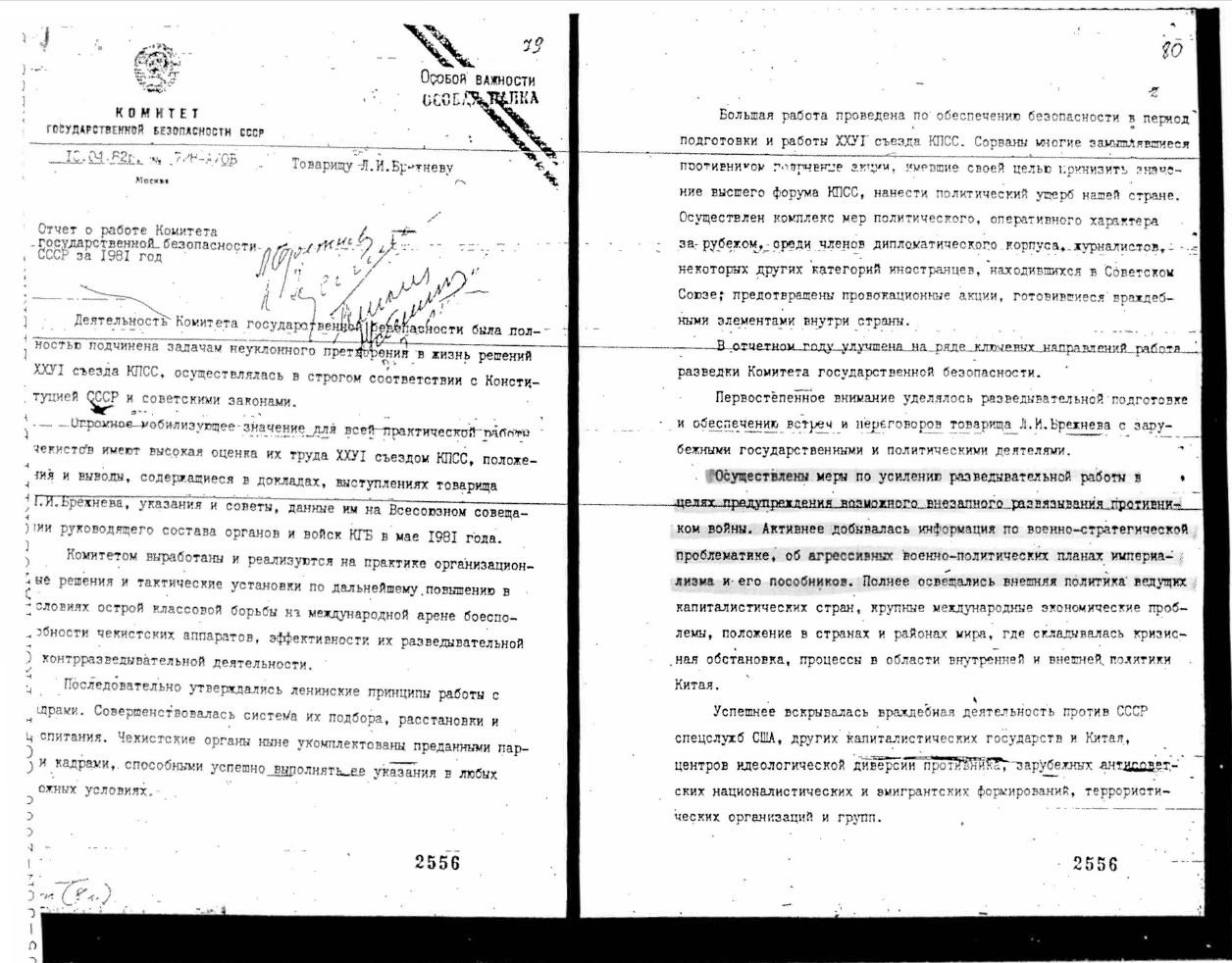 KGB Report on 1981 held in the Volkogonov Collection, US Library of Congress Manuscripts Division.